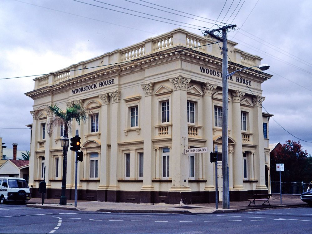 Queensland National Bank (former) (1997)